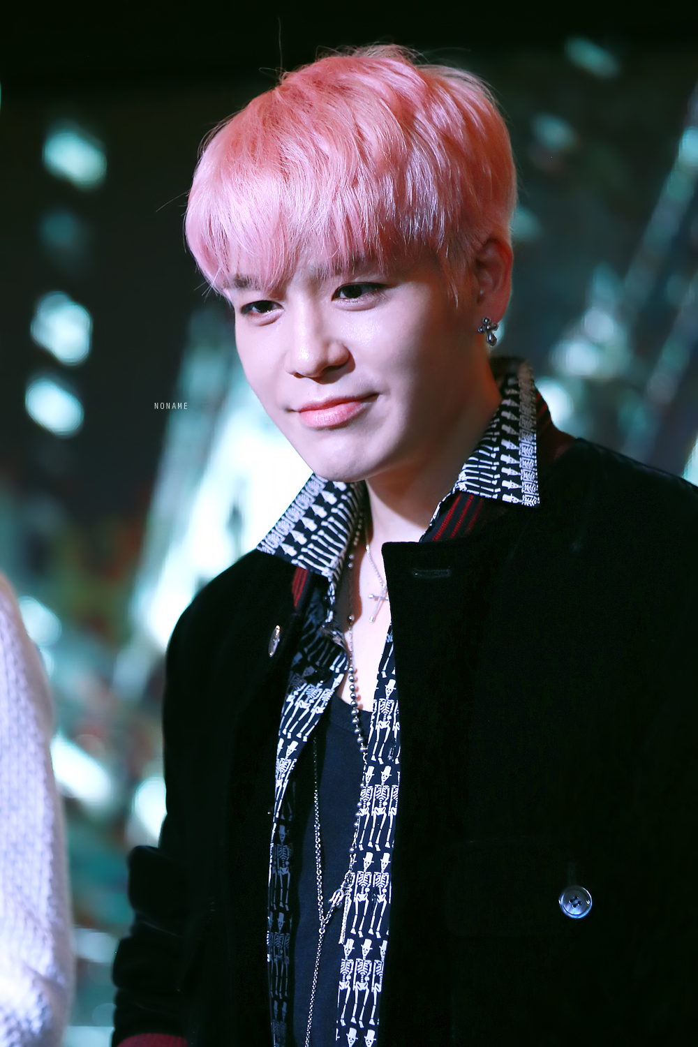 161012 Kang Sung Hoon at Coach 75th Anniversary Heritage Exhibition